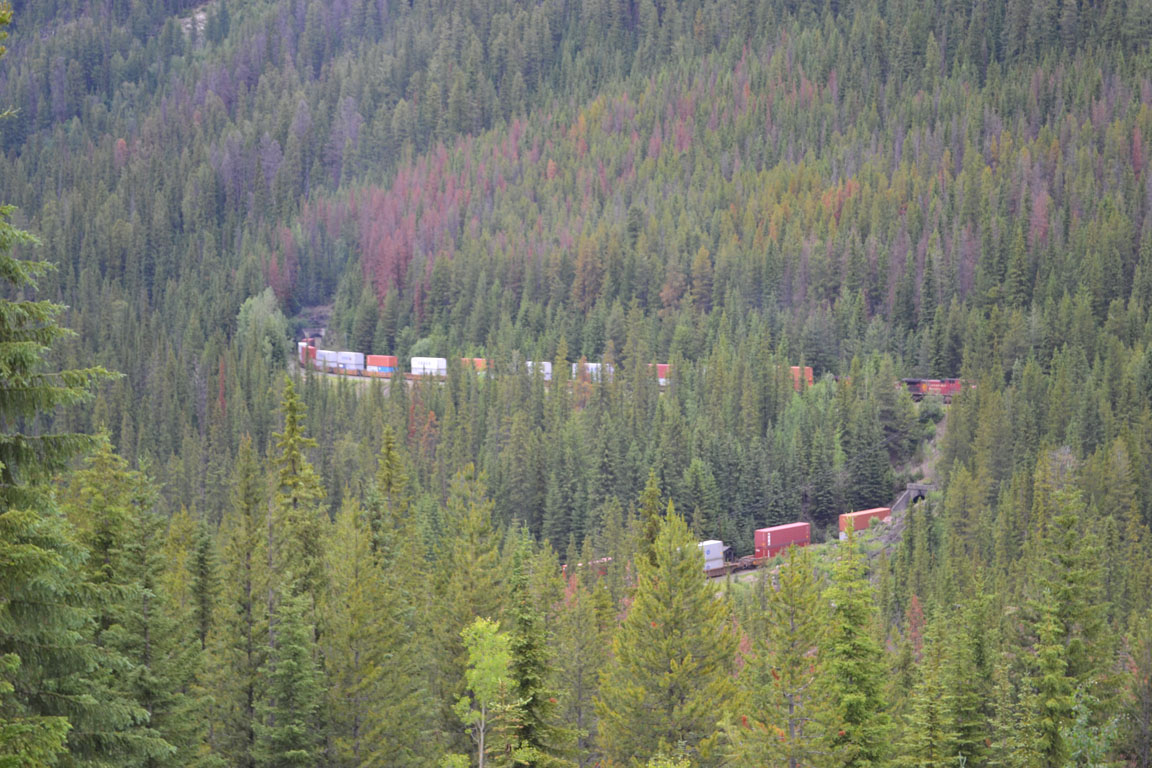 Spiral Tunnels at Banff Canada